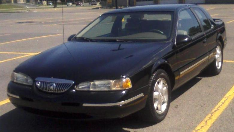 1995-1997 Mercury Cougar photographed in Montreal, Quebec, Canada.